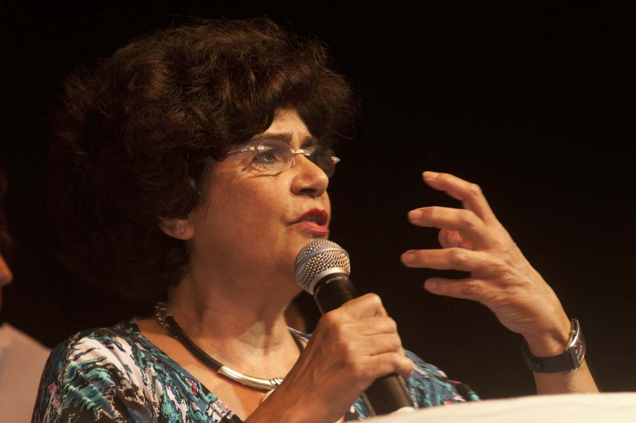 The Brazilian social scientist Marilena Chauí